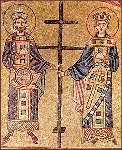 Constantine and Helena. Mosaic in Hosios Loukas